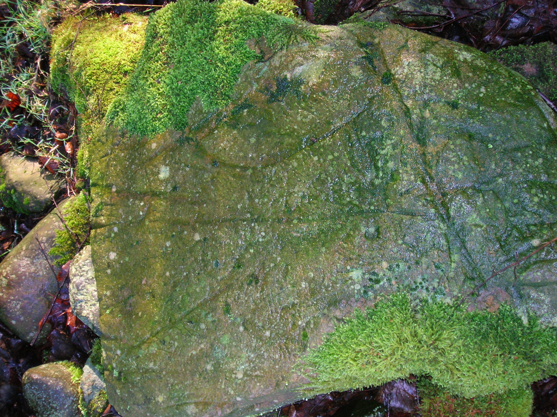 Clear plough marks on a stone from a clearance cairn, Eglinton, Irvine, North Ayrshire, Scotland.